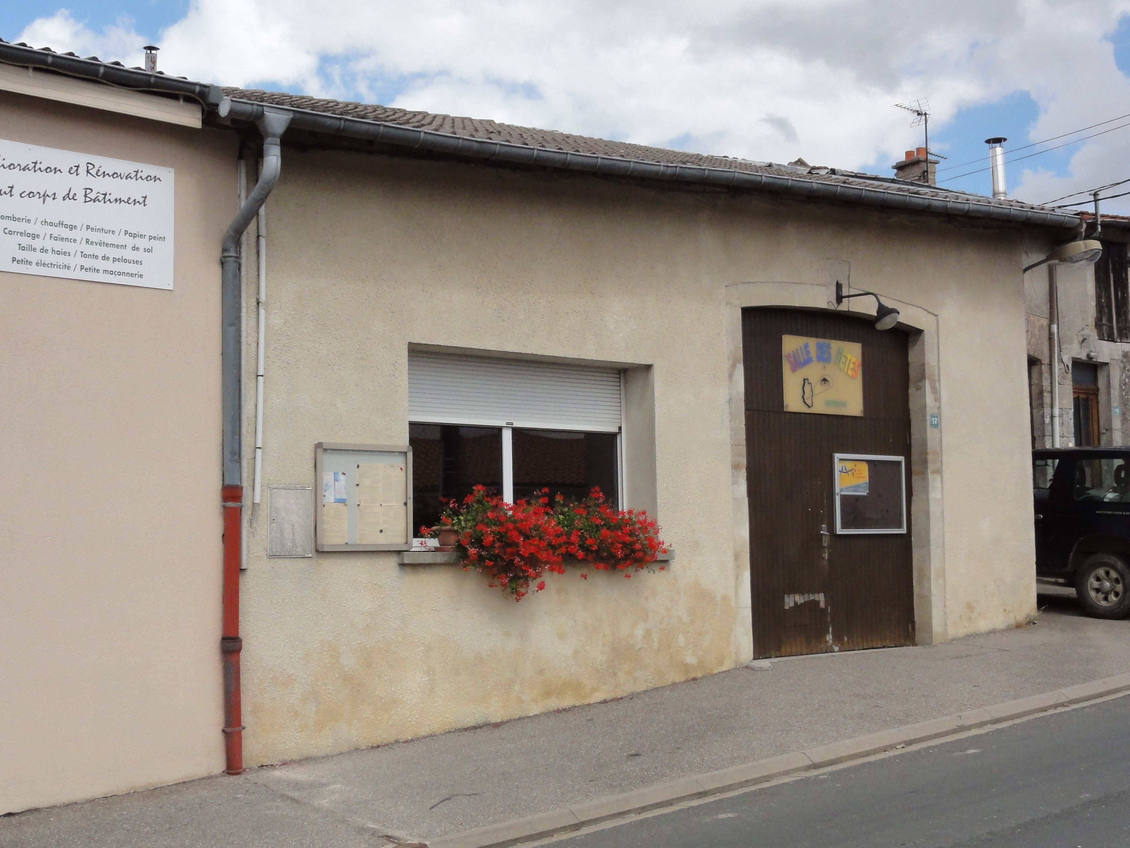 Silmont (Meuse) salle des fêtes